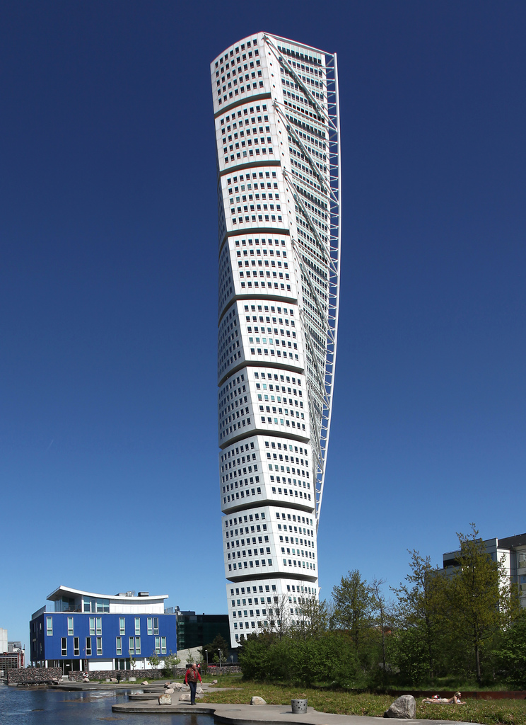 Turning Torso in Malmö, Sweden seen in 2011 from the southern side.